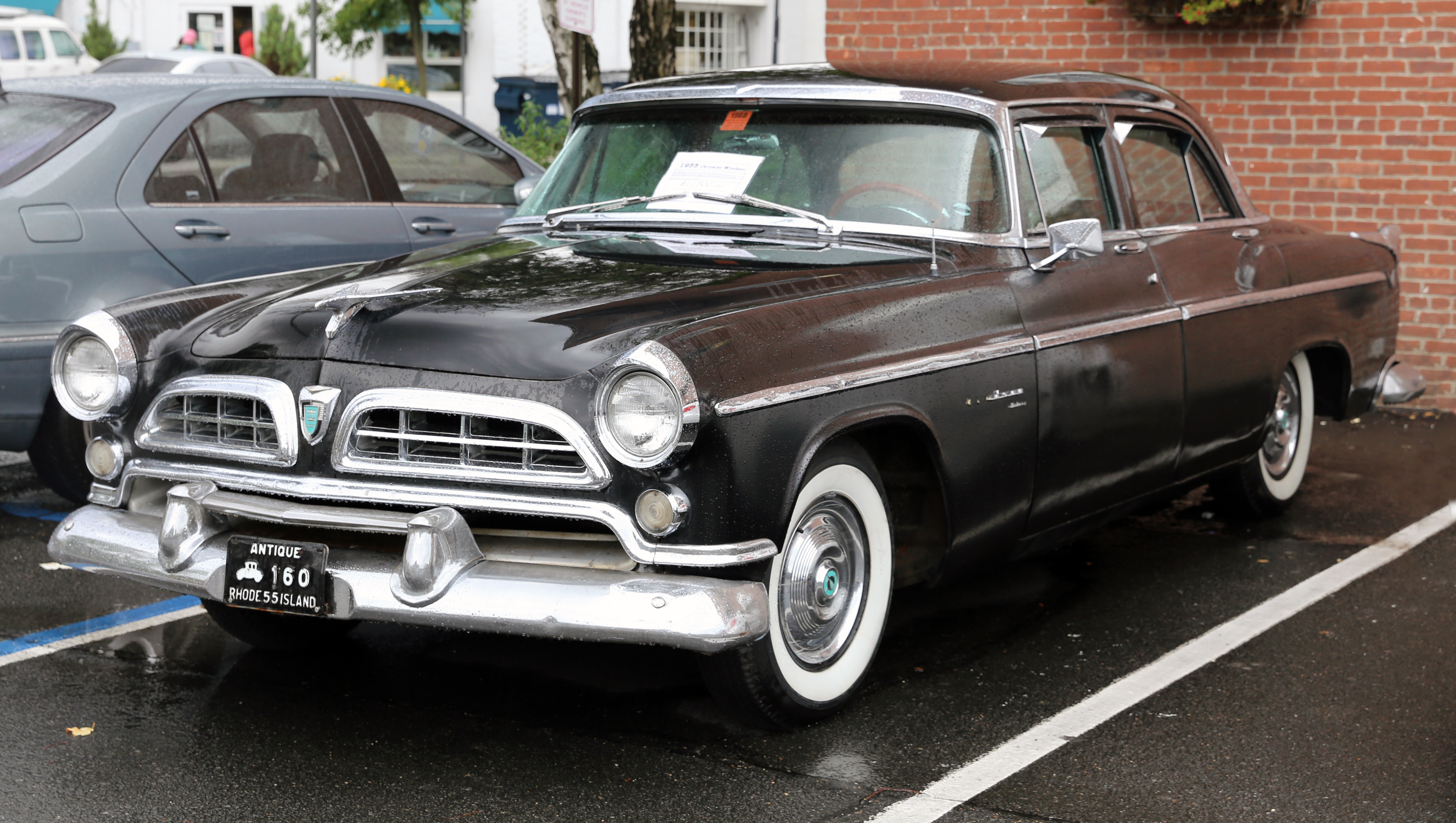 A 1955 Chrysler Windsor Deluxe in Sag Harbor, NY. Front plate is not valid, hence I left it intact. For sale...